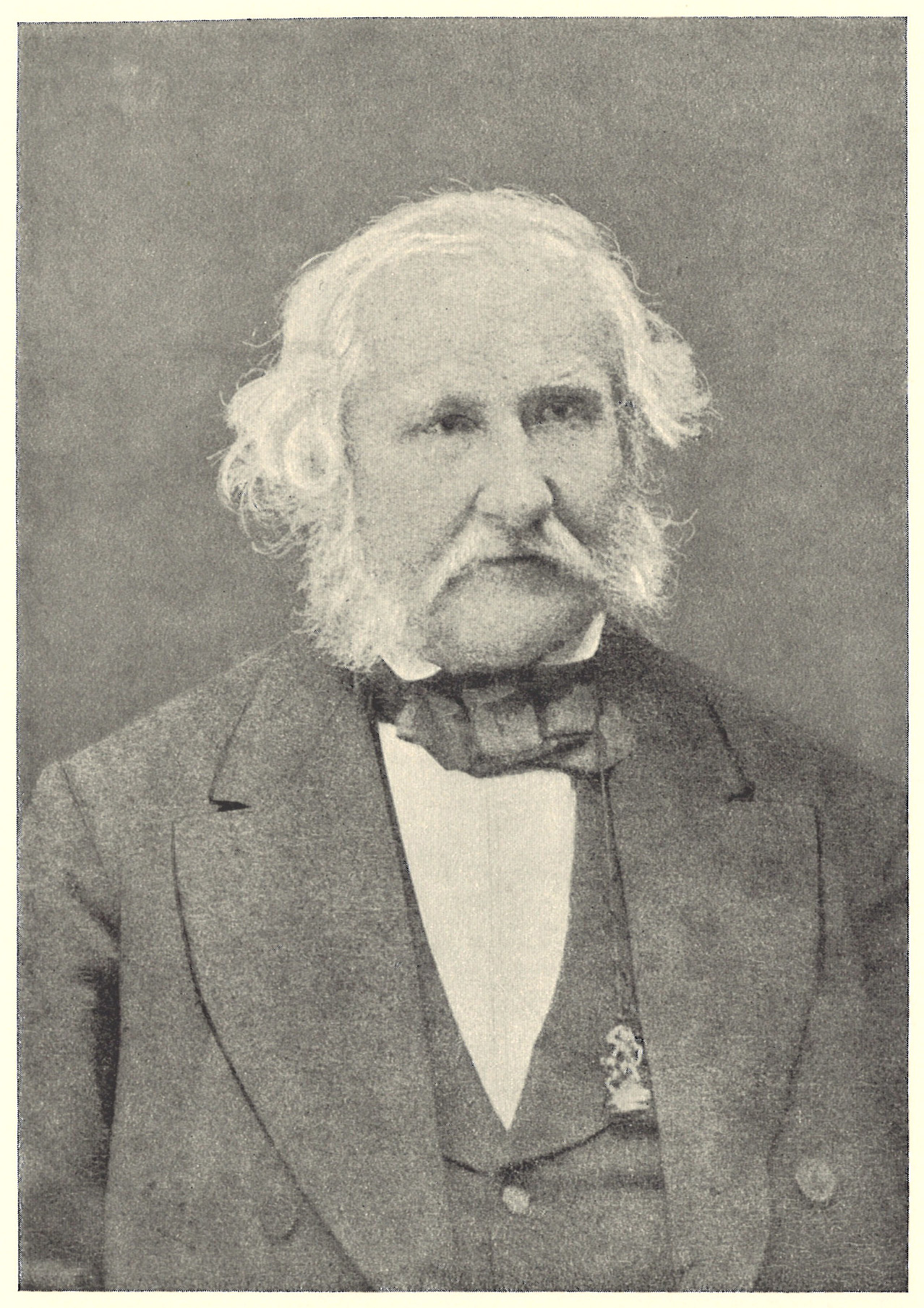 Nils Henrik Lovén (1801-1877), Swedish professor of medicine. One of the founders of Akademiska Föreningen in Lund.